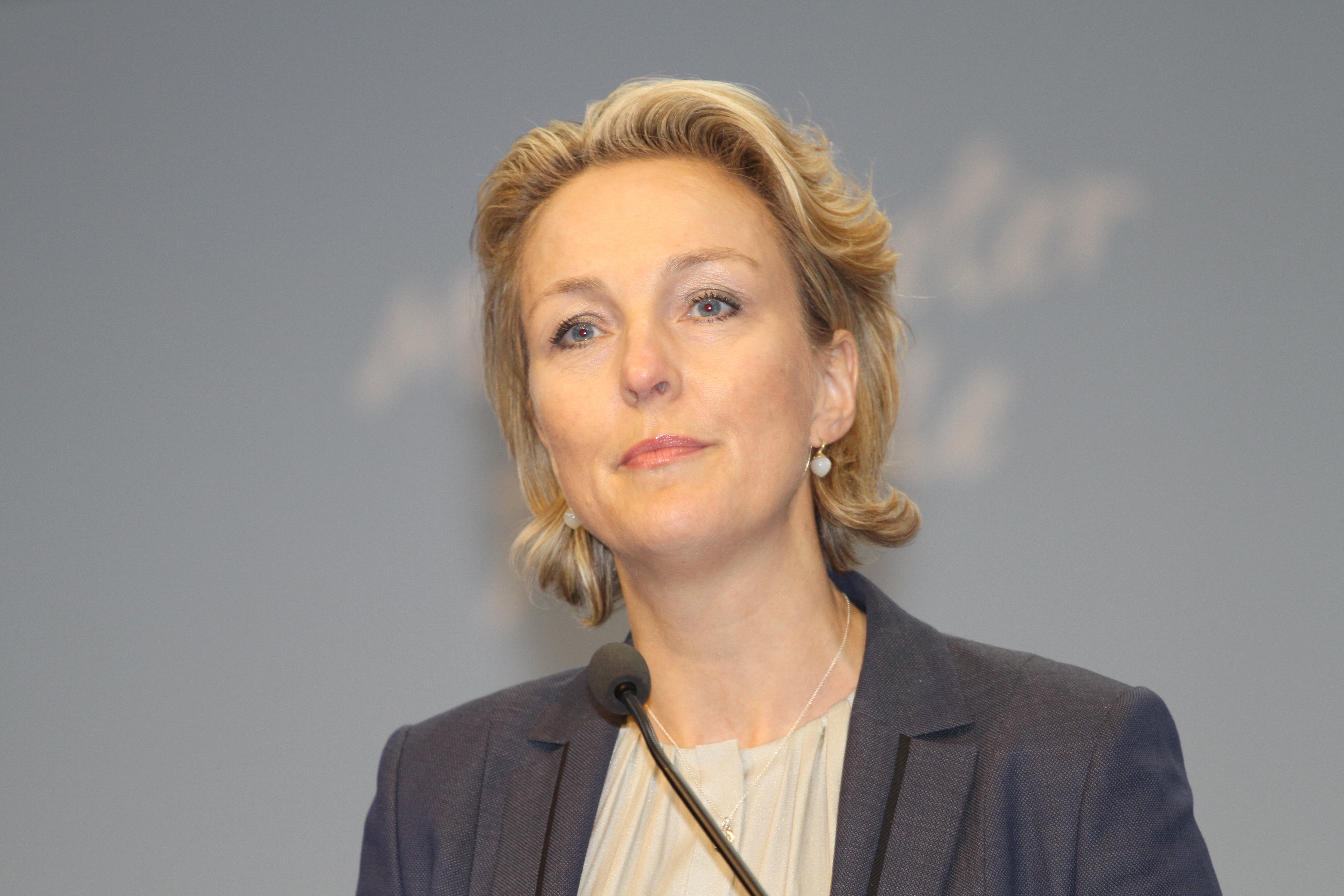 Torill Eidsheim